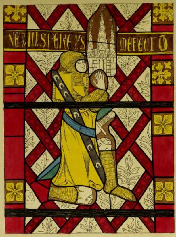 1822 drawing of mediaeval stained glass in east window of Bere Ferrers Church, Devon, depicting Sir William Ferrers, founder of th church.